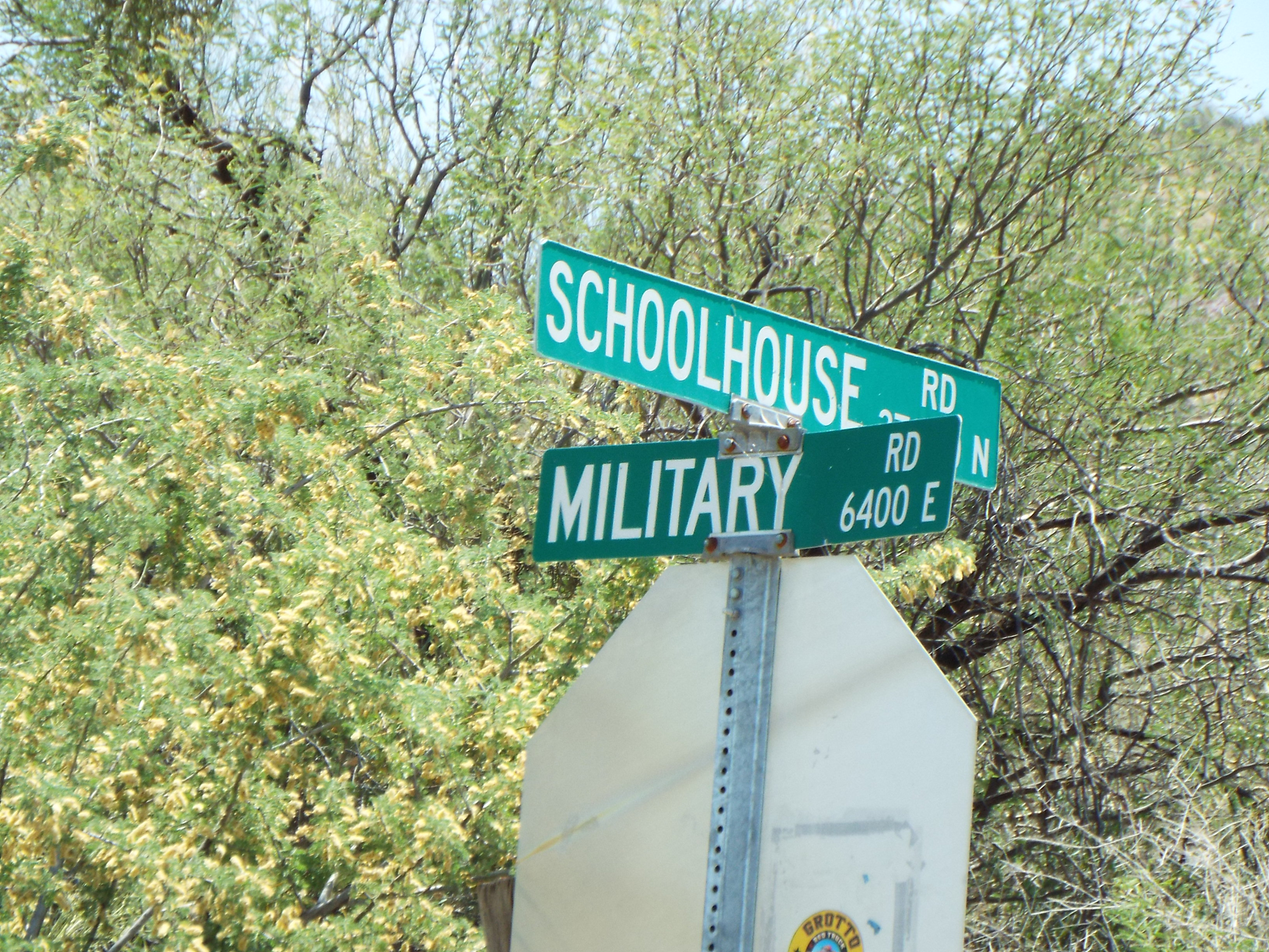 Road sign in Cave Creek, Arizona where the historic 1865 Stoneman Military Trail cut through.